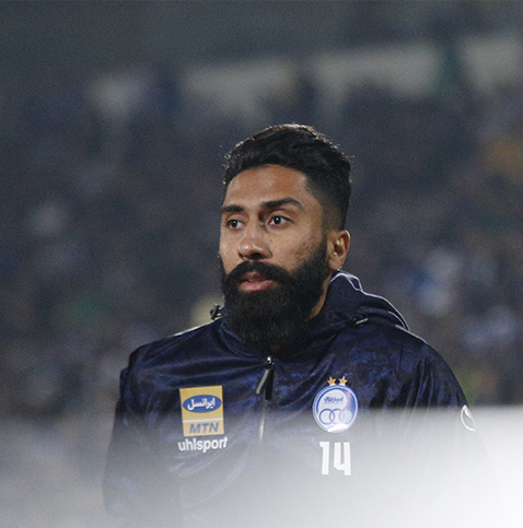 Esteghlal - Pars Jonoubi Jam - Persian Gulf Pro League